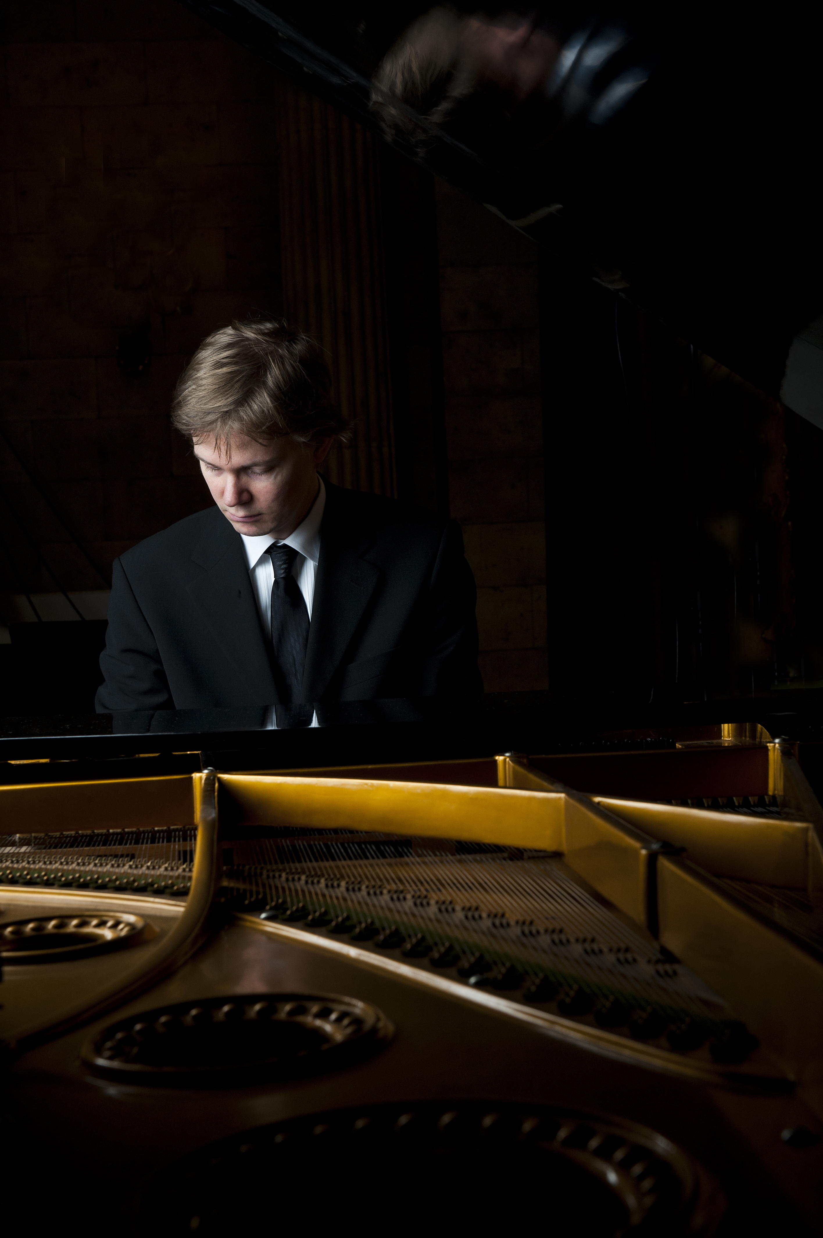 Frederik Magle behind the piano - pianist. December 2012. Photo by Morten Skovgaard